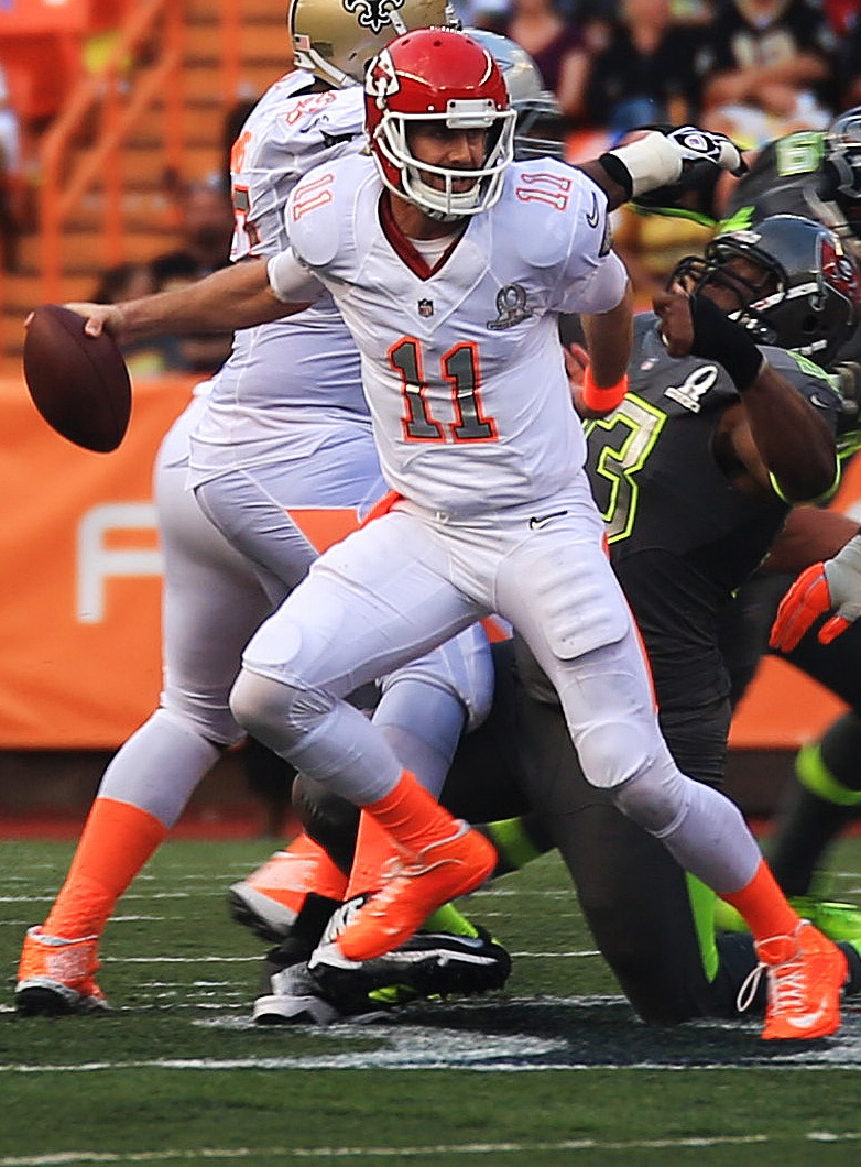 Alex Smith, quarterback for the Kansas City Chiefs, evades being tackled in an attempt to throw a pass down the field during the 2014 National Football League Pro Bowl at Aloha Stadium, Hawaii, Jan. 26, 2014.